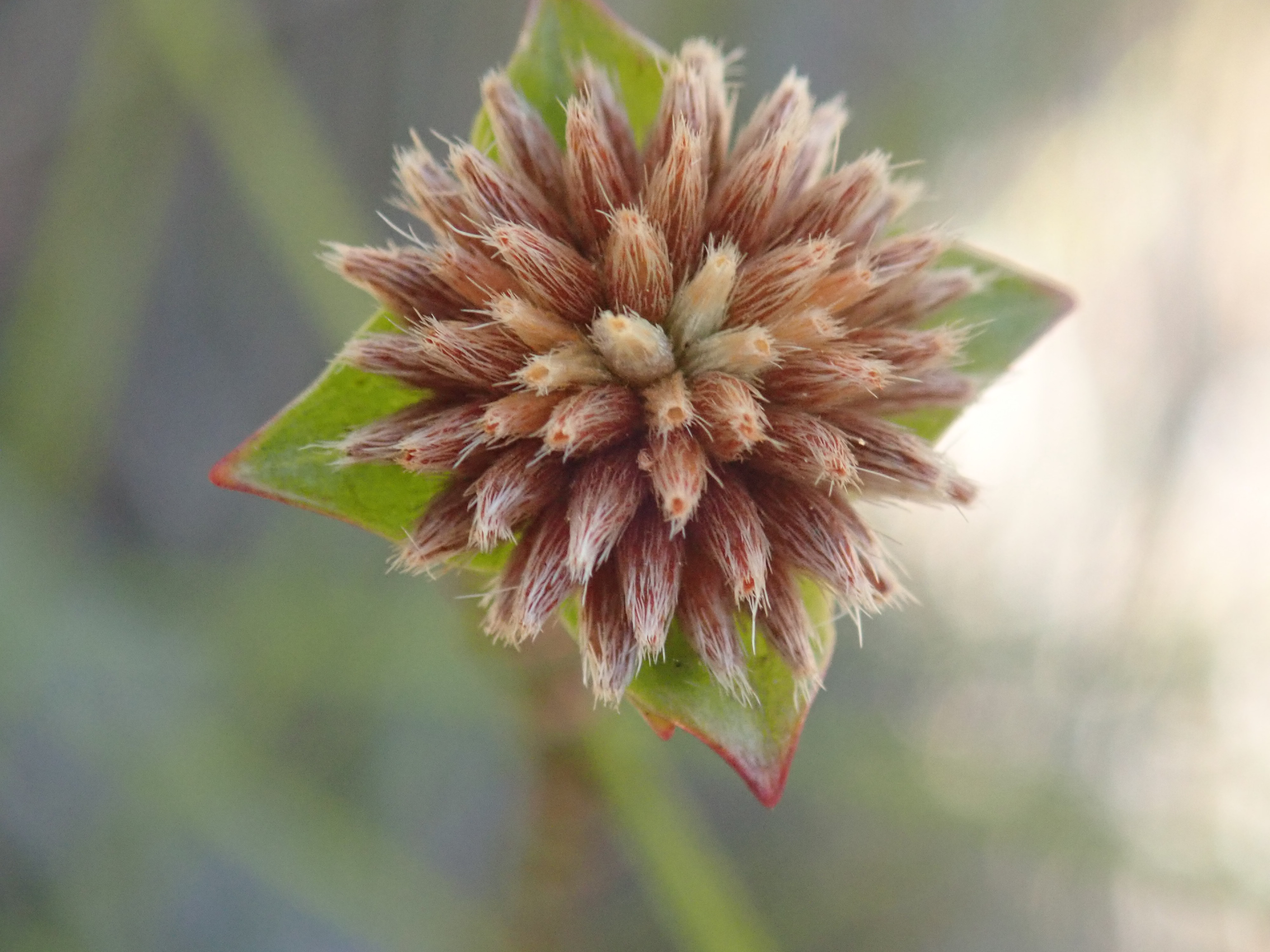 Pimelea glauca fruit, Brisbane Water NP, 25/10/2019